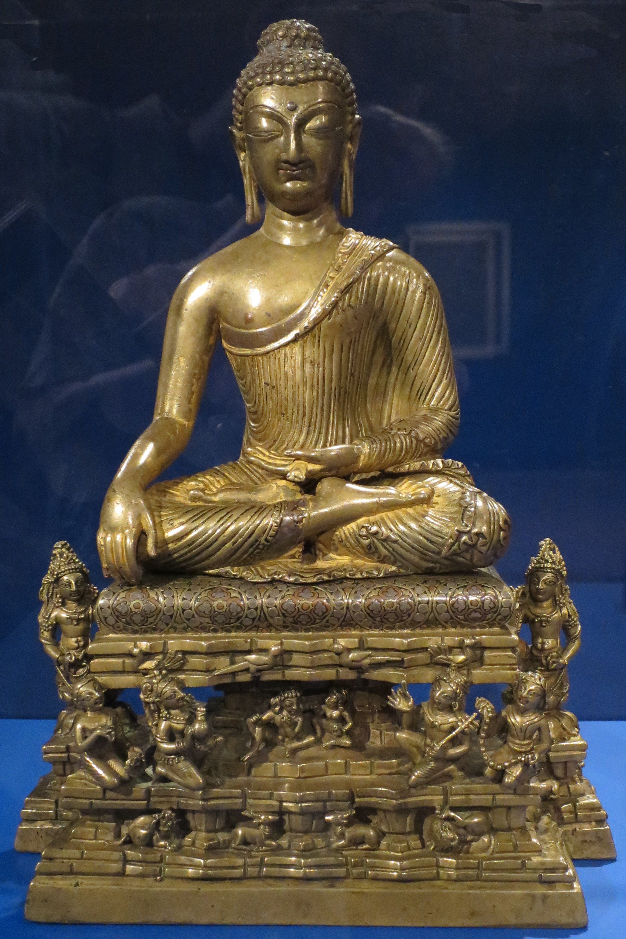 Buddha and Adorants on Mt. Meru from Kashmir, India, c. 700 CE, bronze with silver and copper inlay, Norton Simon Museum